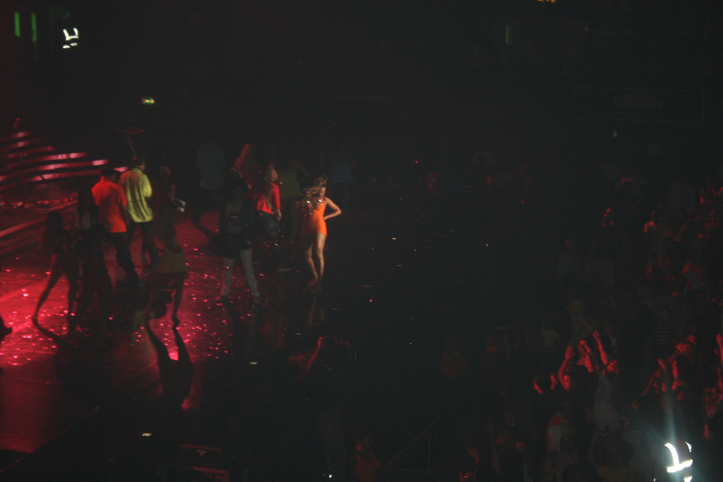 Beyoncé Knowles performing Deja Vu in Staples Center in Los Angeles.